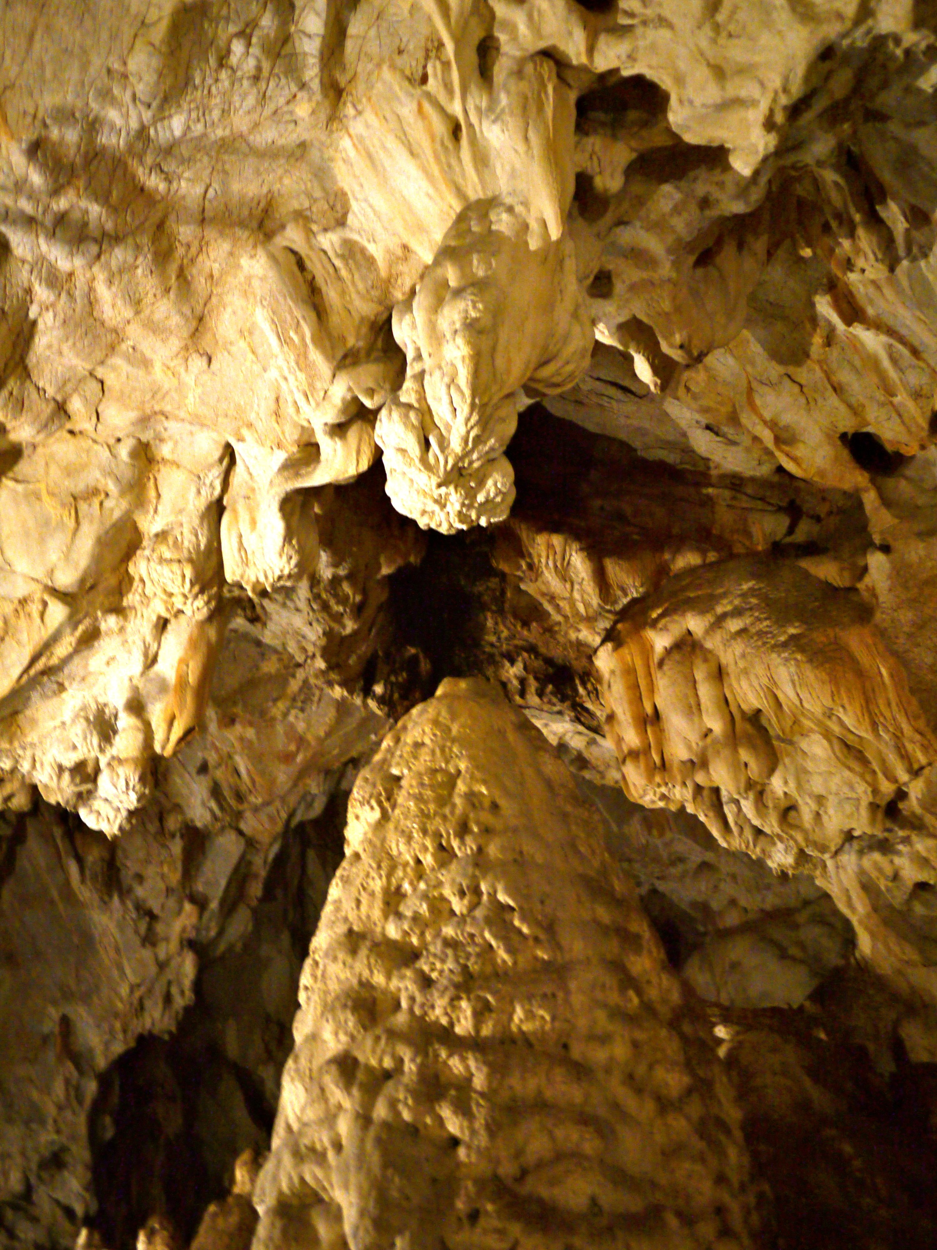 Stalagmite in Vrelo Cave